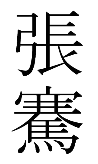 Hanzi for Zhang Qian.